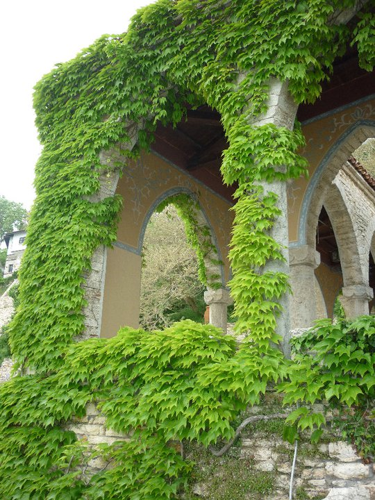 Architectural-Park Complex “The Palace” in Balchik